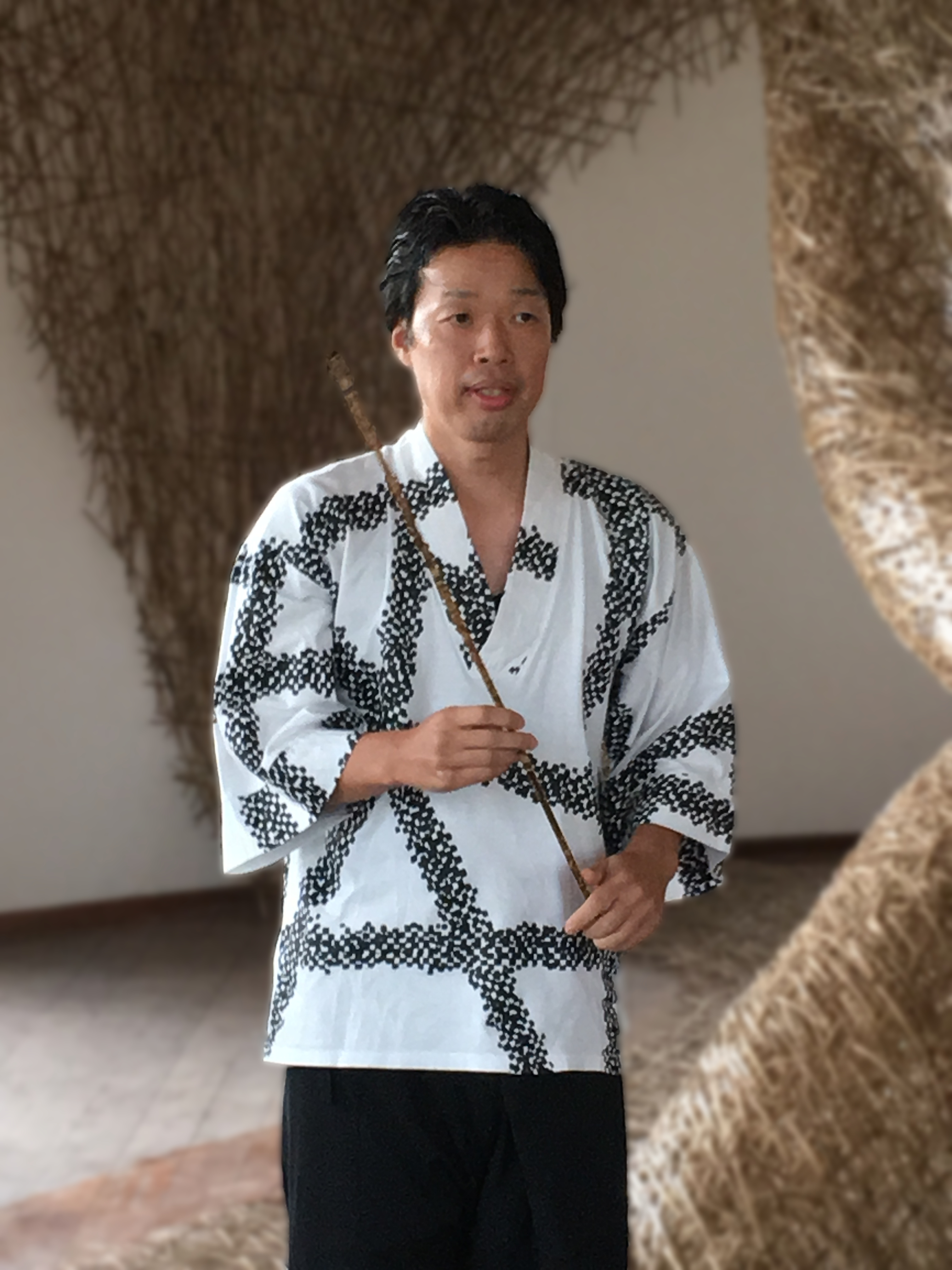 Tanabe, born Takeo, Shōchiku III (b. 1973) at the Musée Guimet explaining his large installation work. He is the son of Chikuunsai III (d. March 2014). Shōchiku means “little bamboo“. In 2017 he inherited the name Chikuunsai IV, which means ” bamboo cloud“.